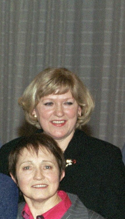 NOVO-OGARYOVO. President Vladimir Putin meeting with Russian Olympic team athletes and trainers. Zhanna Gromova.